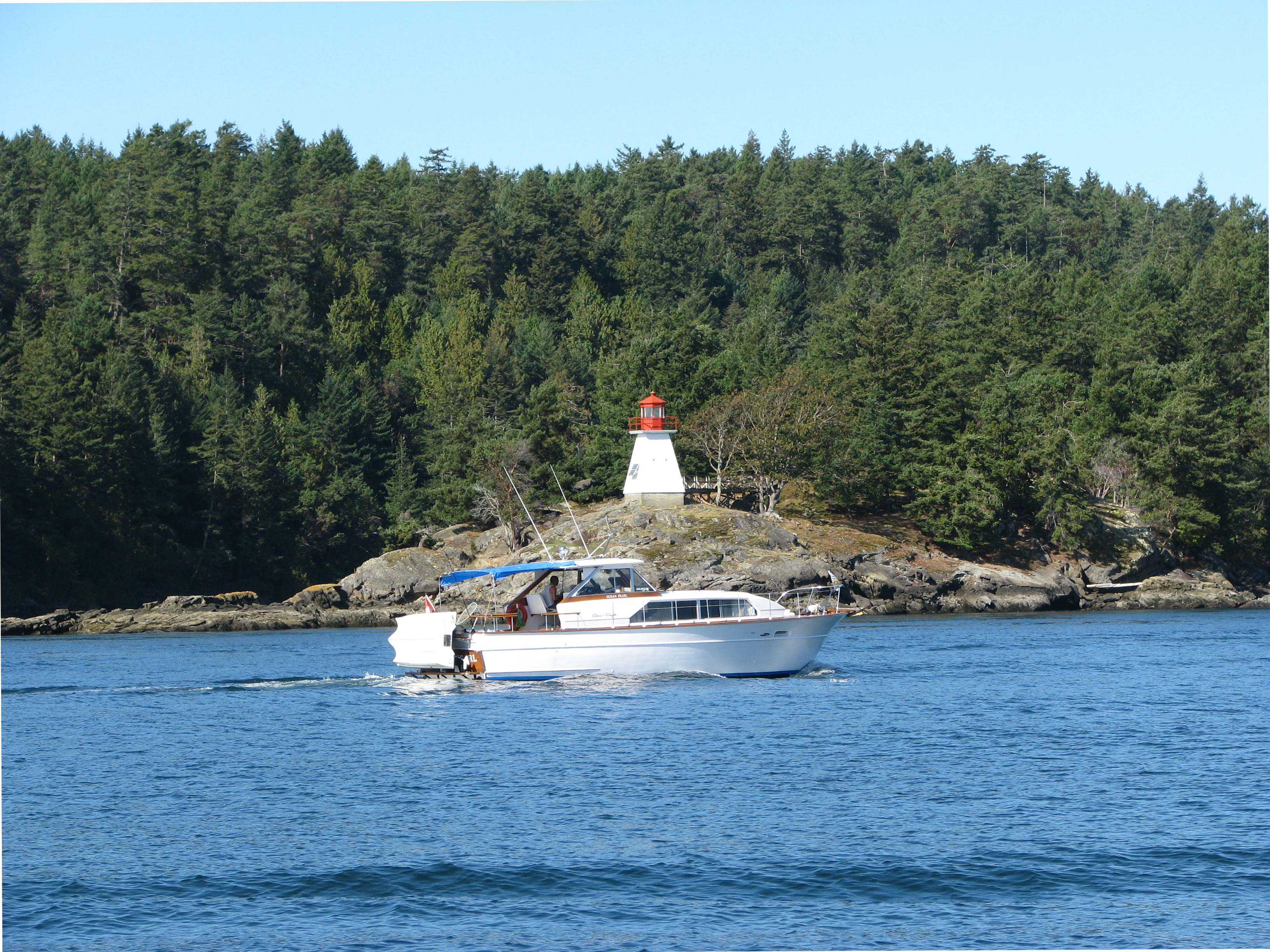 Portlock Point Lighthouse, Prevost Island, Gulf Island, British Columbia at the junction of Trincomali Channel, Swanson Channel, Navy Channel and just south of Active Pass.